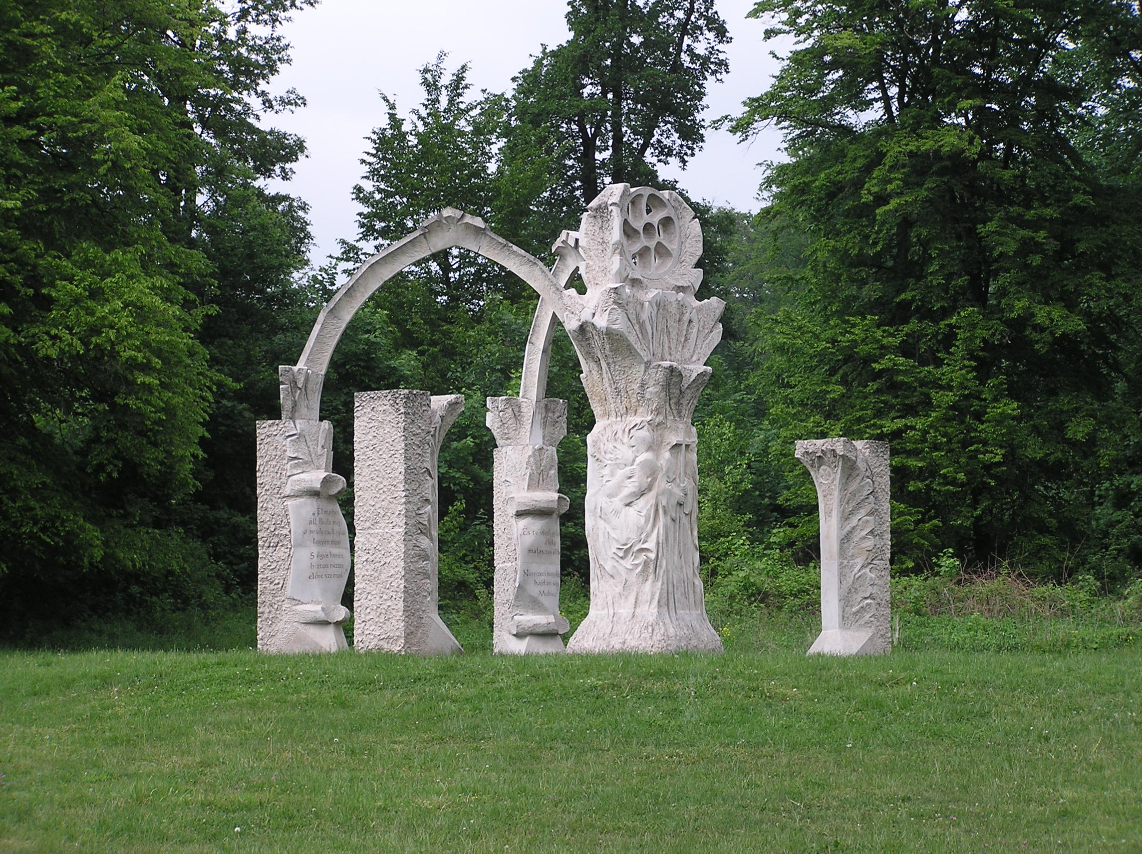 Memorial of the Pusztamarót battle, Gerecse mountains, Hungary